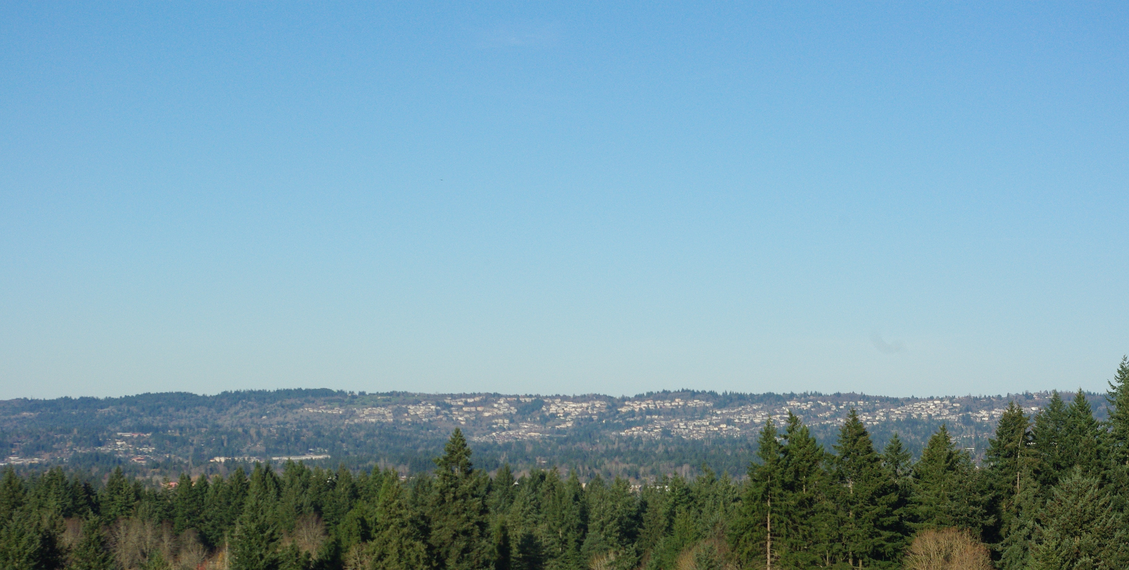 Tualatin Mountains in the Portland, Oregon, metro area.